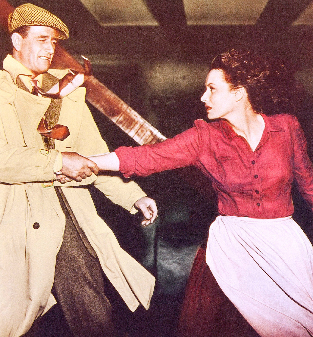 Photo from the American film The Quiet Man (1952). Pictured are John Wayne and Maureen O’Hara.